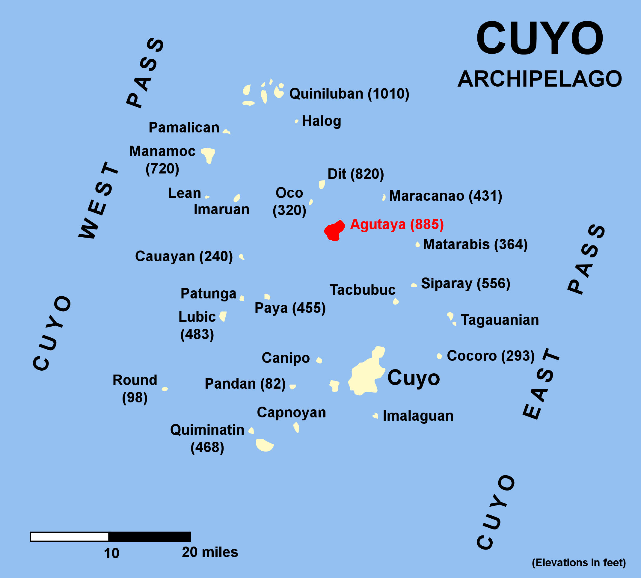 Agutaya_map